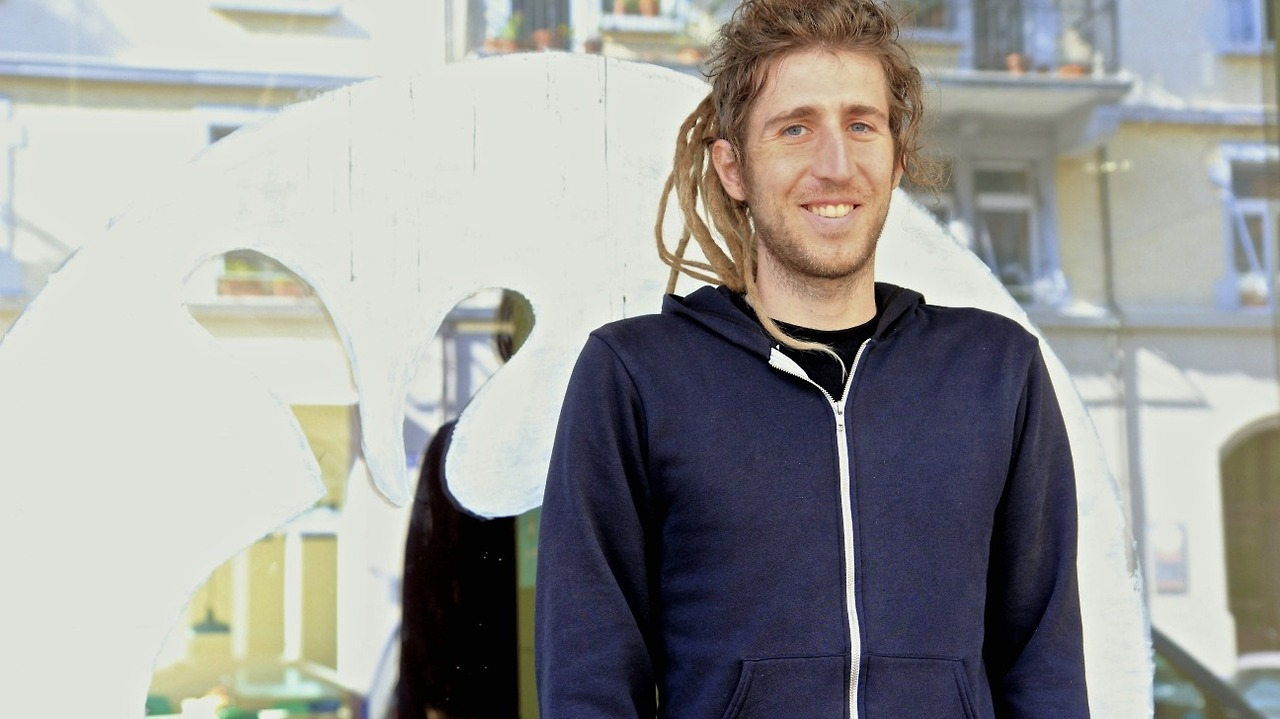 Moxie Marlinspike